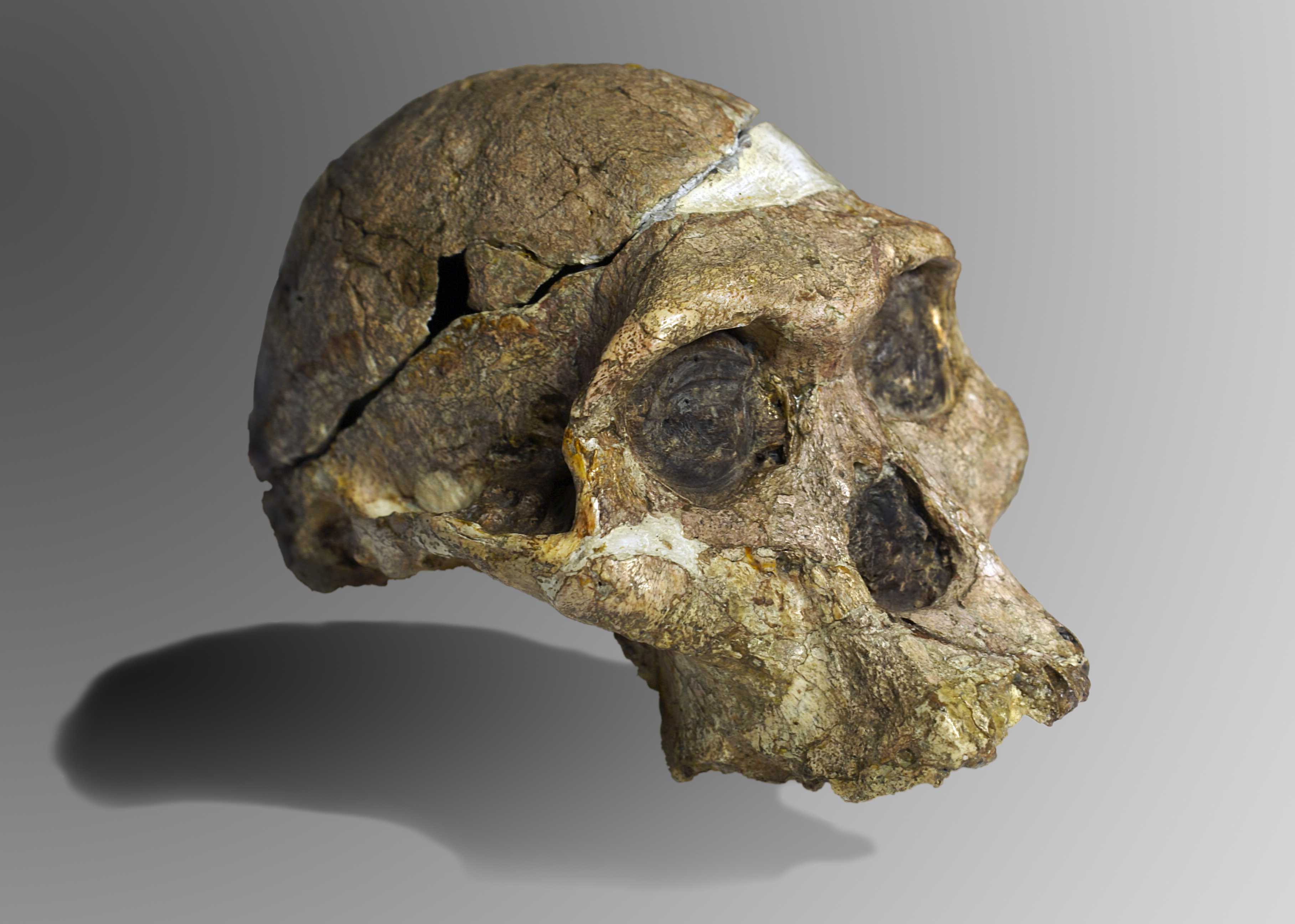 The original complete skull (without upper teeth and mandible) of a 2.1 million year old Australopithecus africanus specimen so-called Mrs. Ples, discovered in South Africa. Collection of the Transvaal Museum, Northern Flagship Institute, Pretoria, South Africa. (catalogue number STS 5, Sterkfontein cave, hominid fossil number 5)